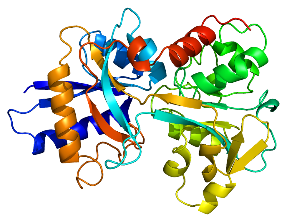 Structure of the TF protein. Based on PyMOL rendering of PDB 1a8e.